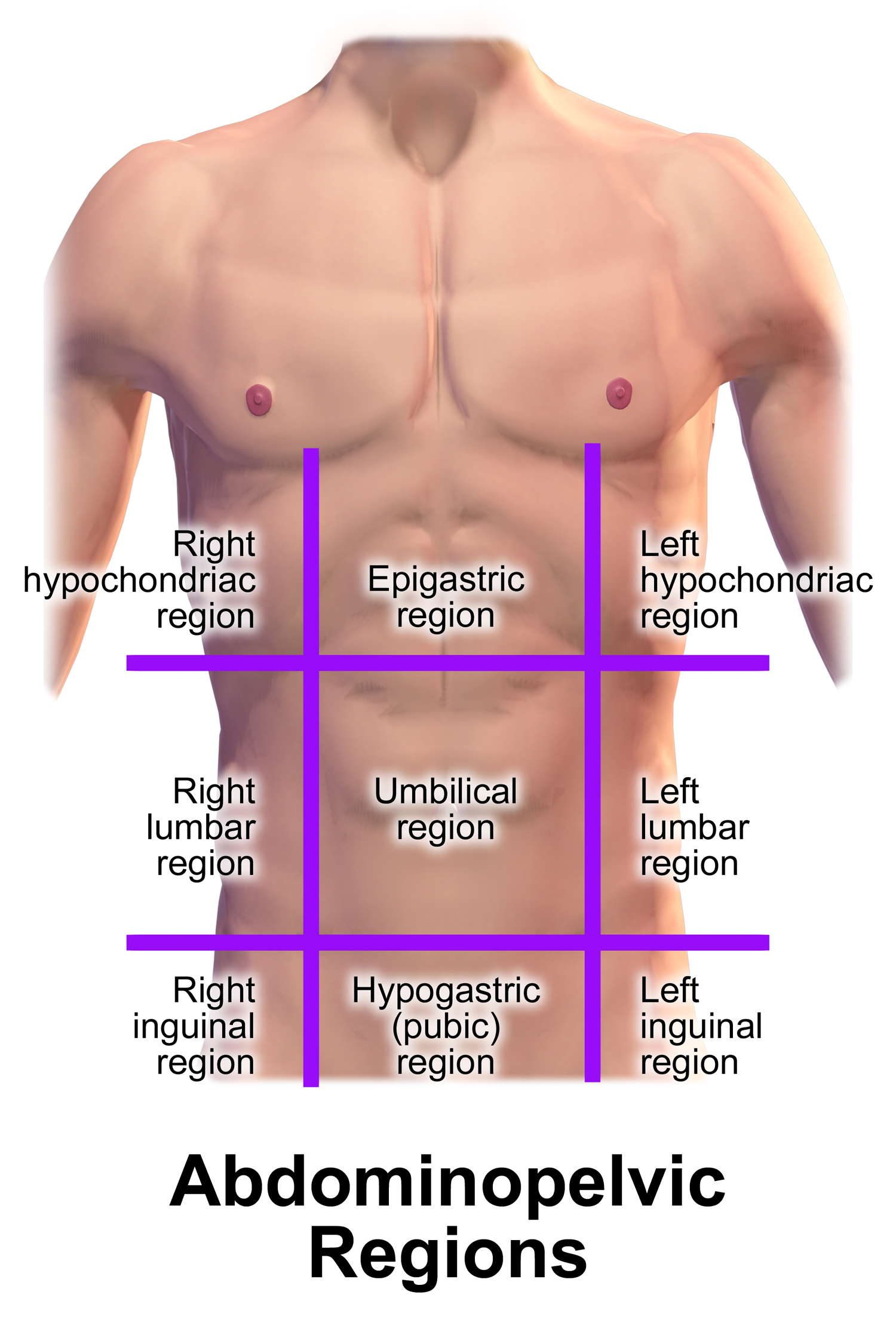 Abdominopelvic Regions. This image was donated by Blausen Medical. Please visit our website to see more medical illustrations and animations.